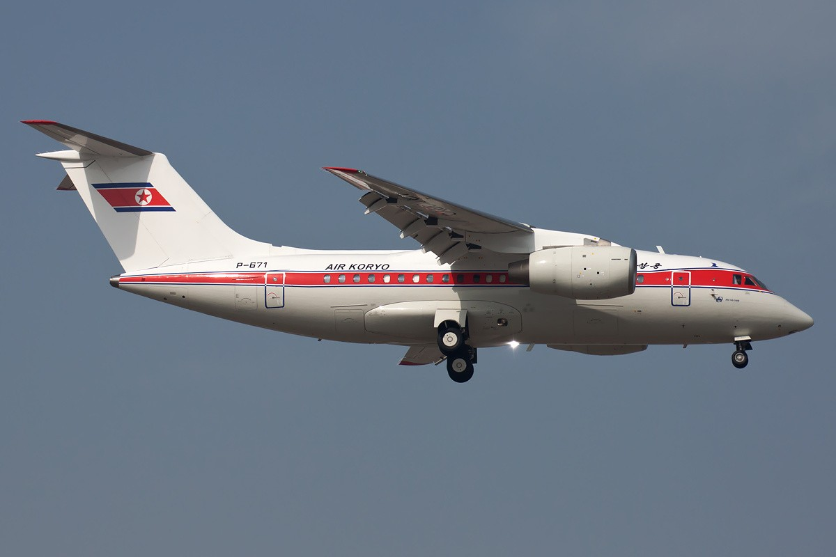 P-671 (cn 03-08) landing in Beijing - Capital (PEK / ZBAA)